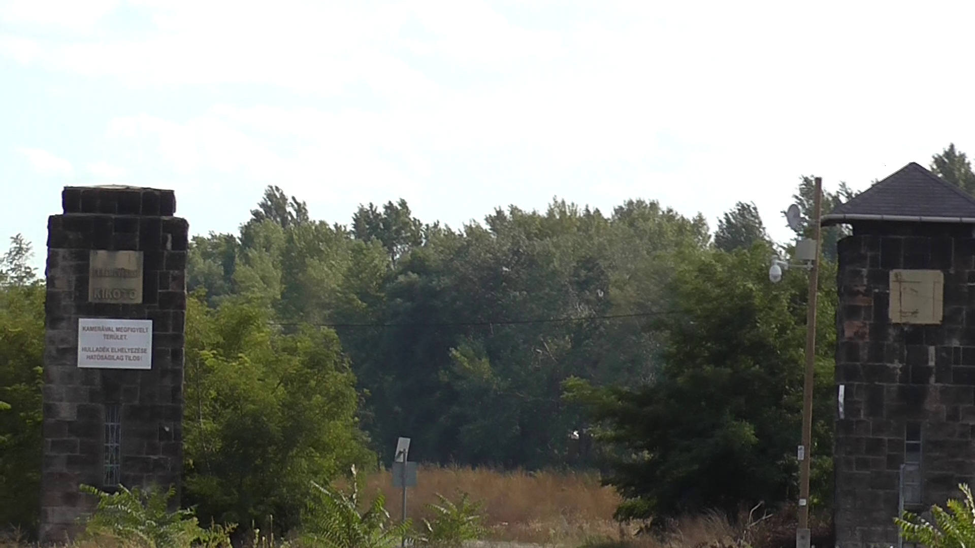 A Ferencvárosi Kikötő bejárata